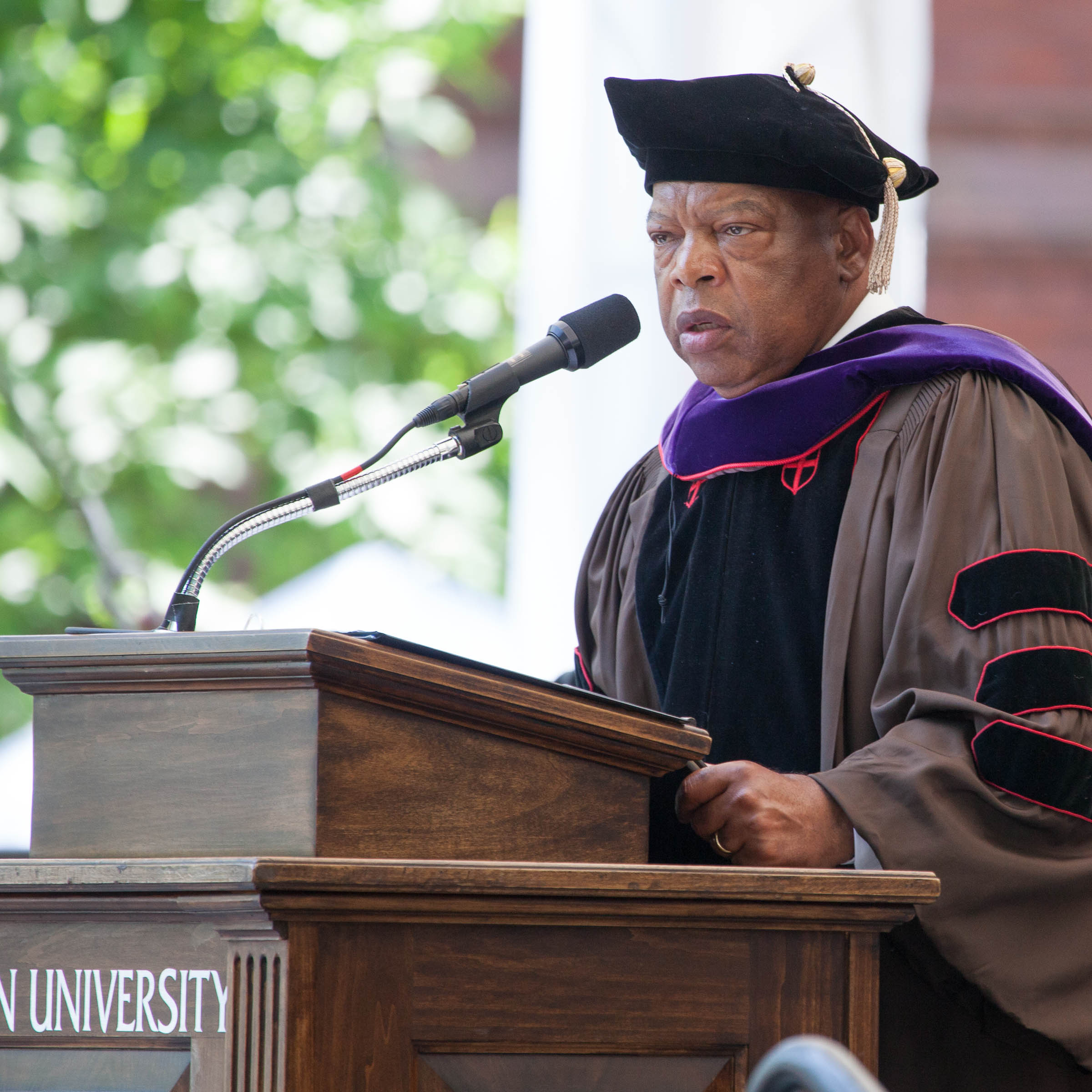 John Lewis Civil rights leader receives honorary degree from Brown University in 2012